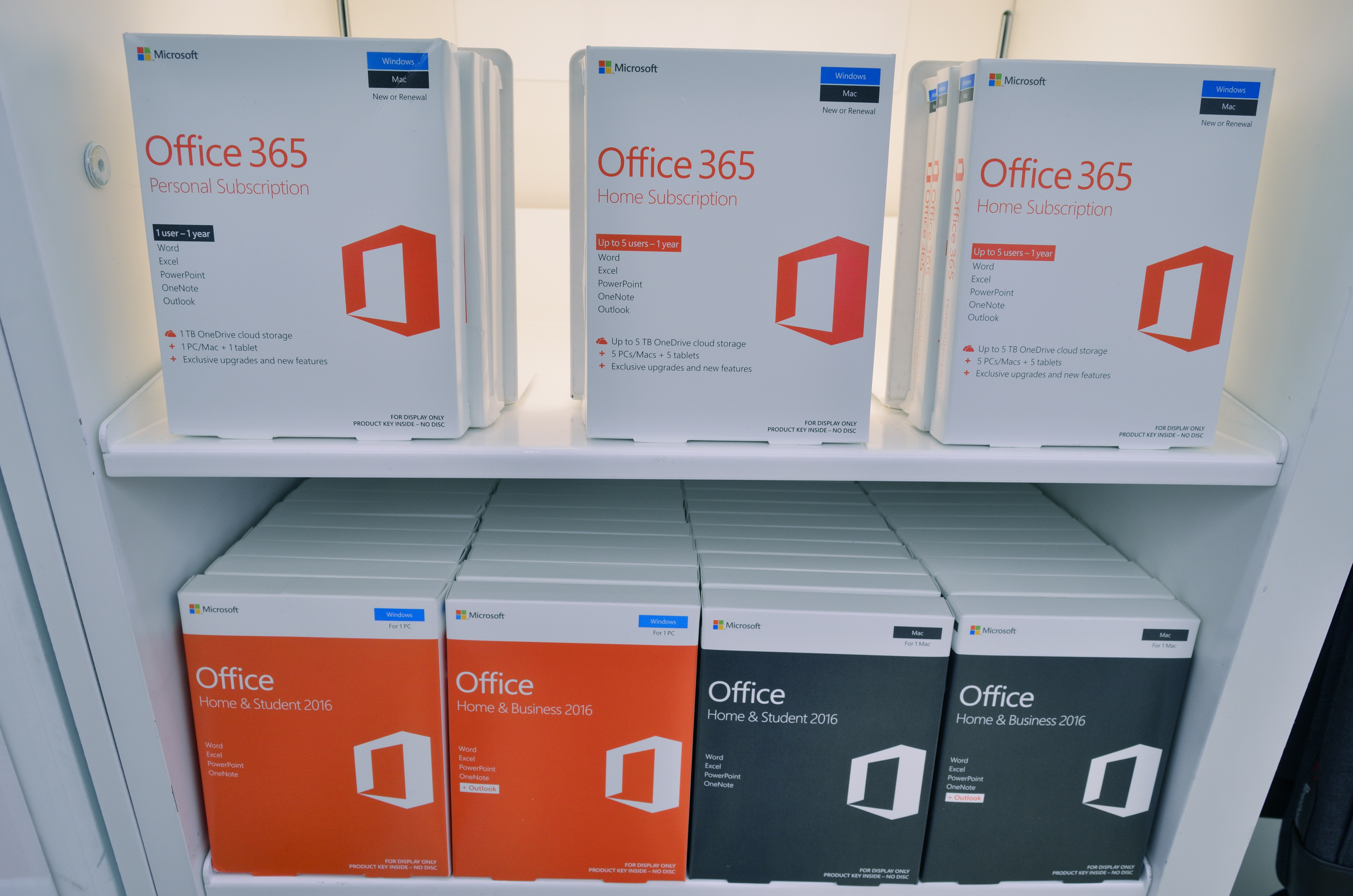 Office 365 retail pack at Microsoft Store